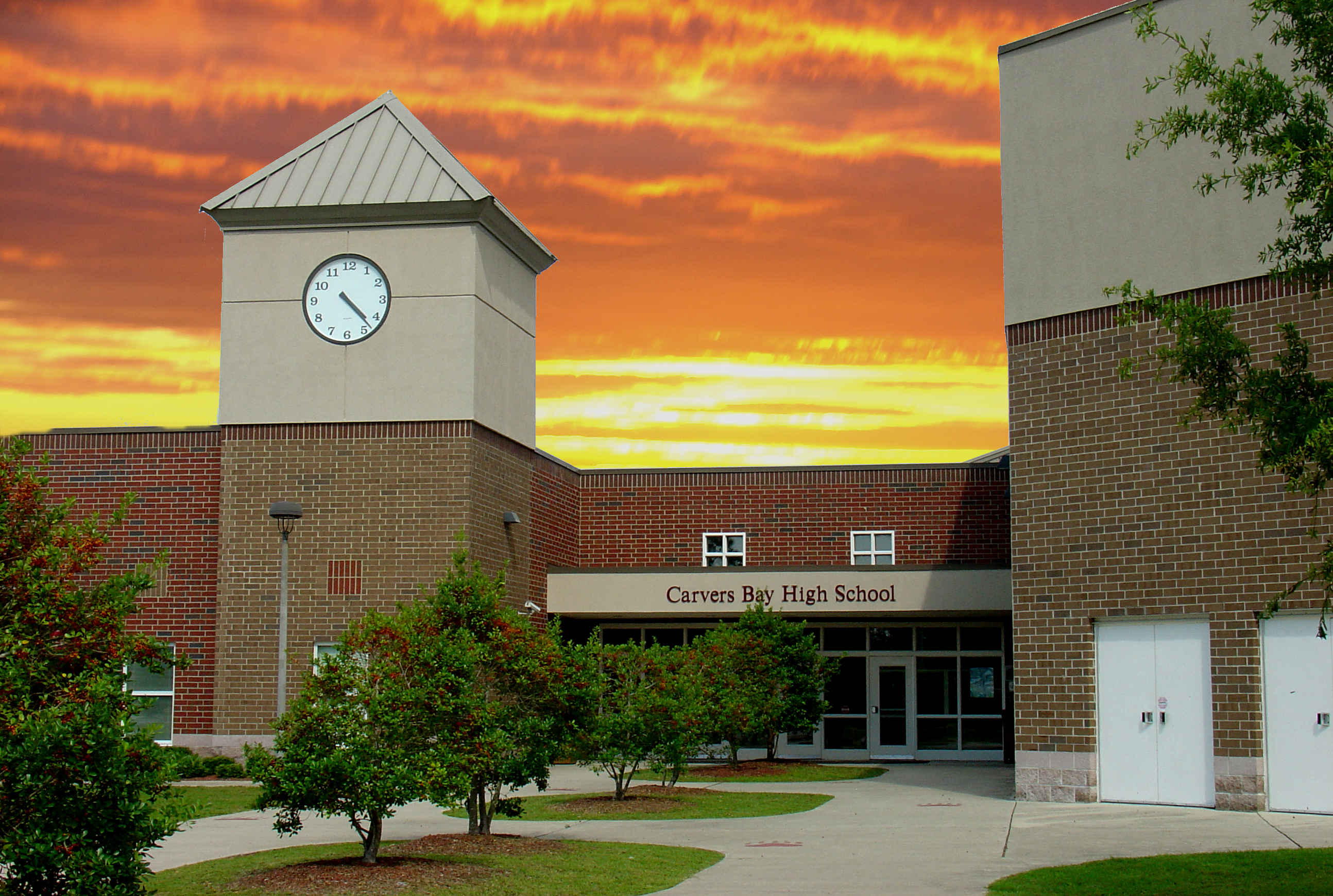 Photograph of Carvers Bay High School in Georgetown County, South Carolina, United States.